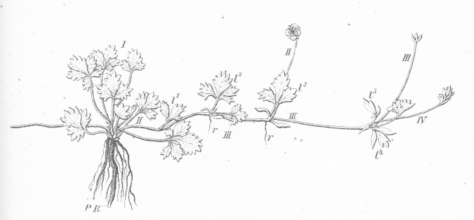 Potentilla anglica; PR primary root. I Leaves on primary axis. II runner with leaves l1-l3 (l2 with axillary shoot(III), and a terminal flower (II). Leaf l3 subtends another runner (III), carrying the leaves l4-l5, and with another terminal flower (III). The leaf l5 subtends a third order runner (IV).